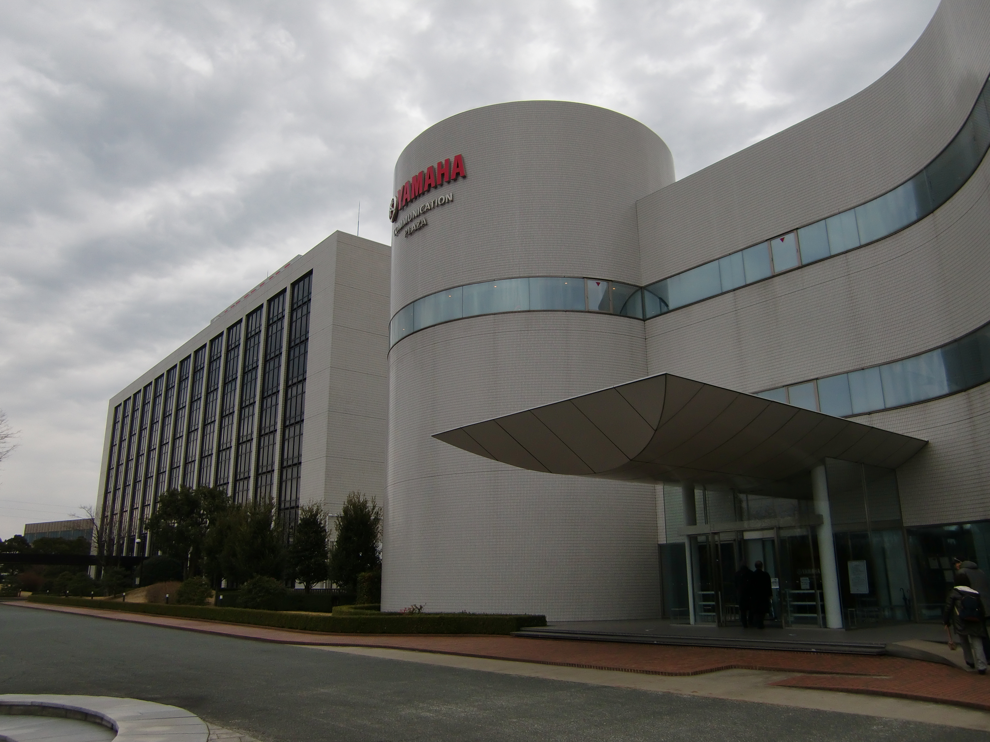 Yamaha Communication Plaza